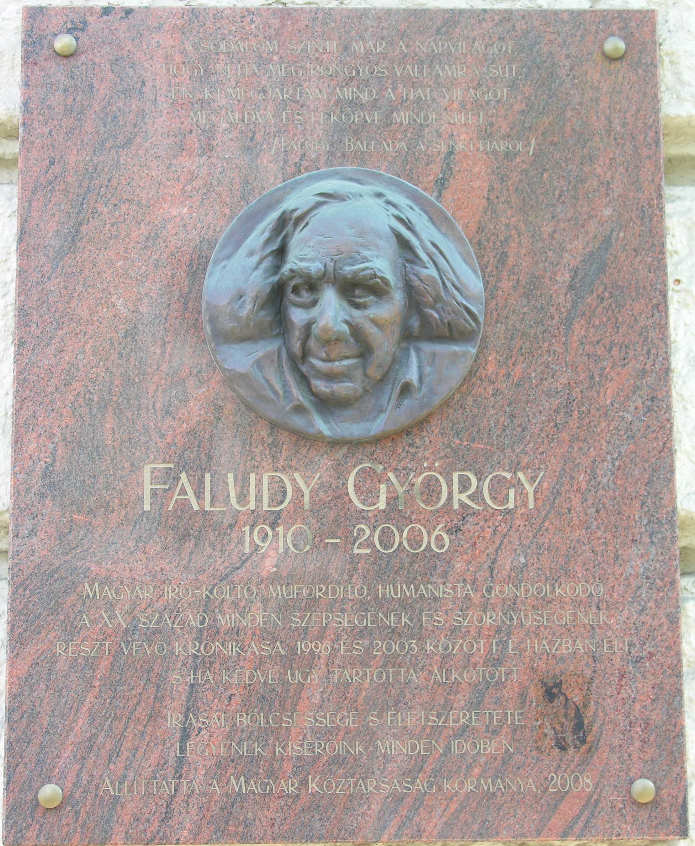 Commemorative plaque of György Faludy in Budapest District XIII, Szent István Boulevard No 2. Created by Ágnes Máger